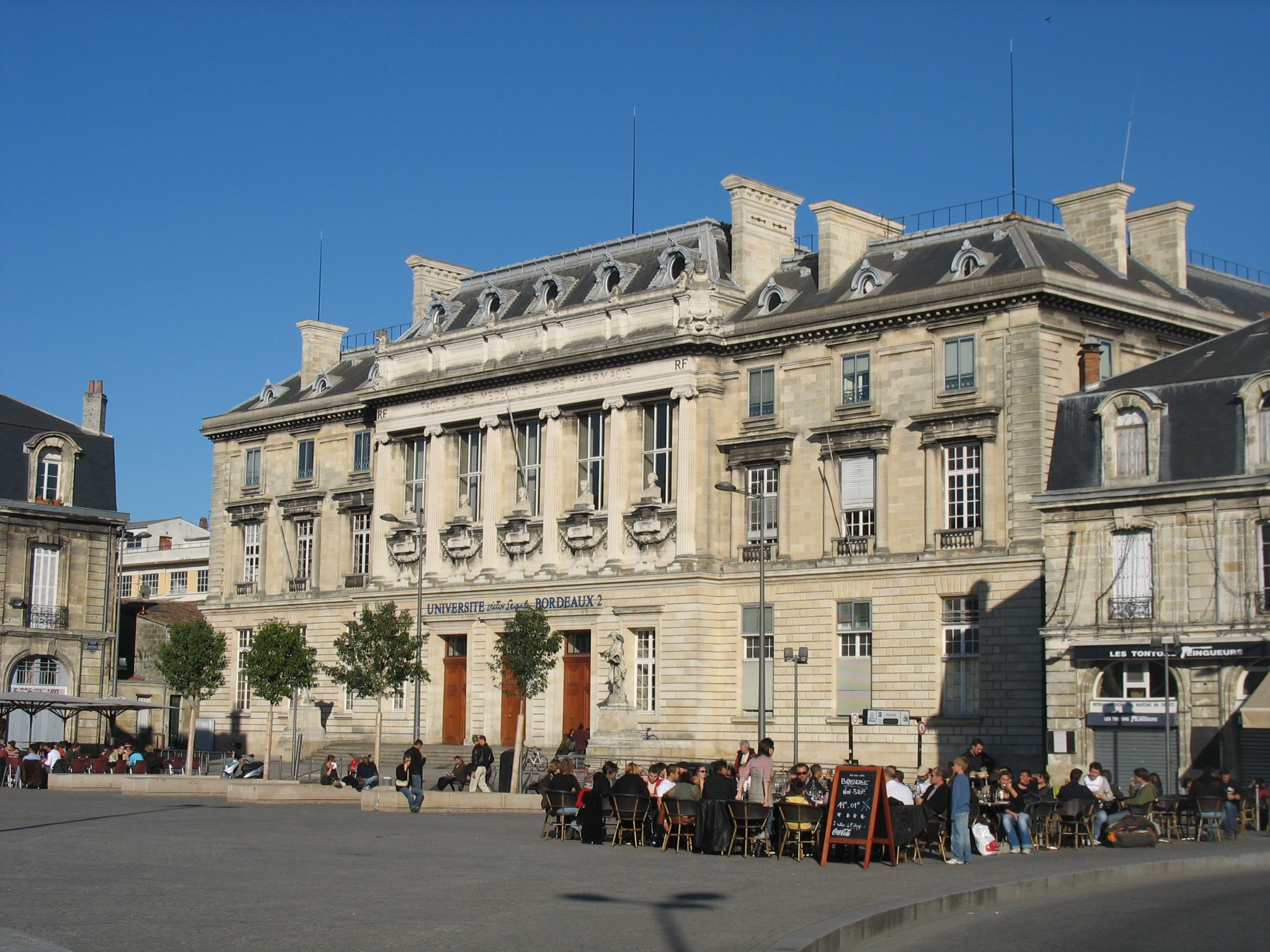 University Bordeaux 2, place de la Victoire, Bordeaux. Formerly faculty of medicine and now faculty of sociology.